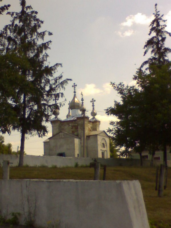 Krichunove village in Ukraine.